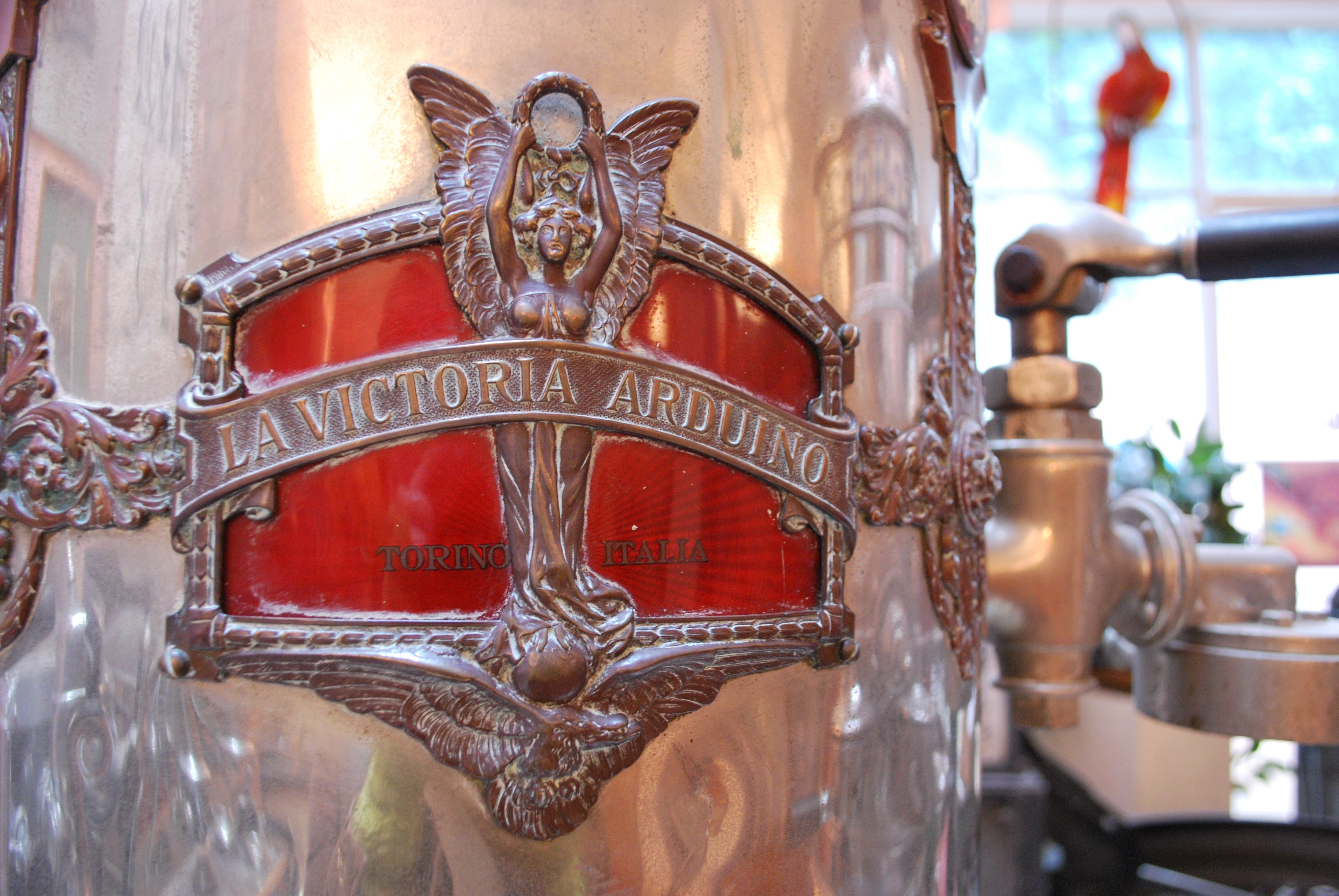 The Victoria Arduino espresso machine : low-relief representing a Victoria holding a laurel wreath.